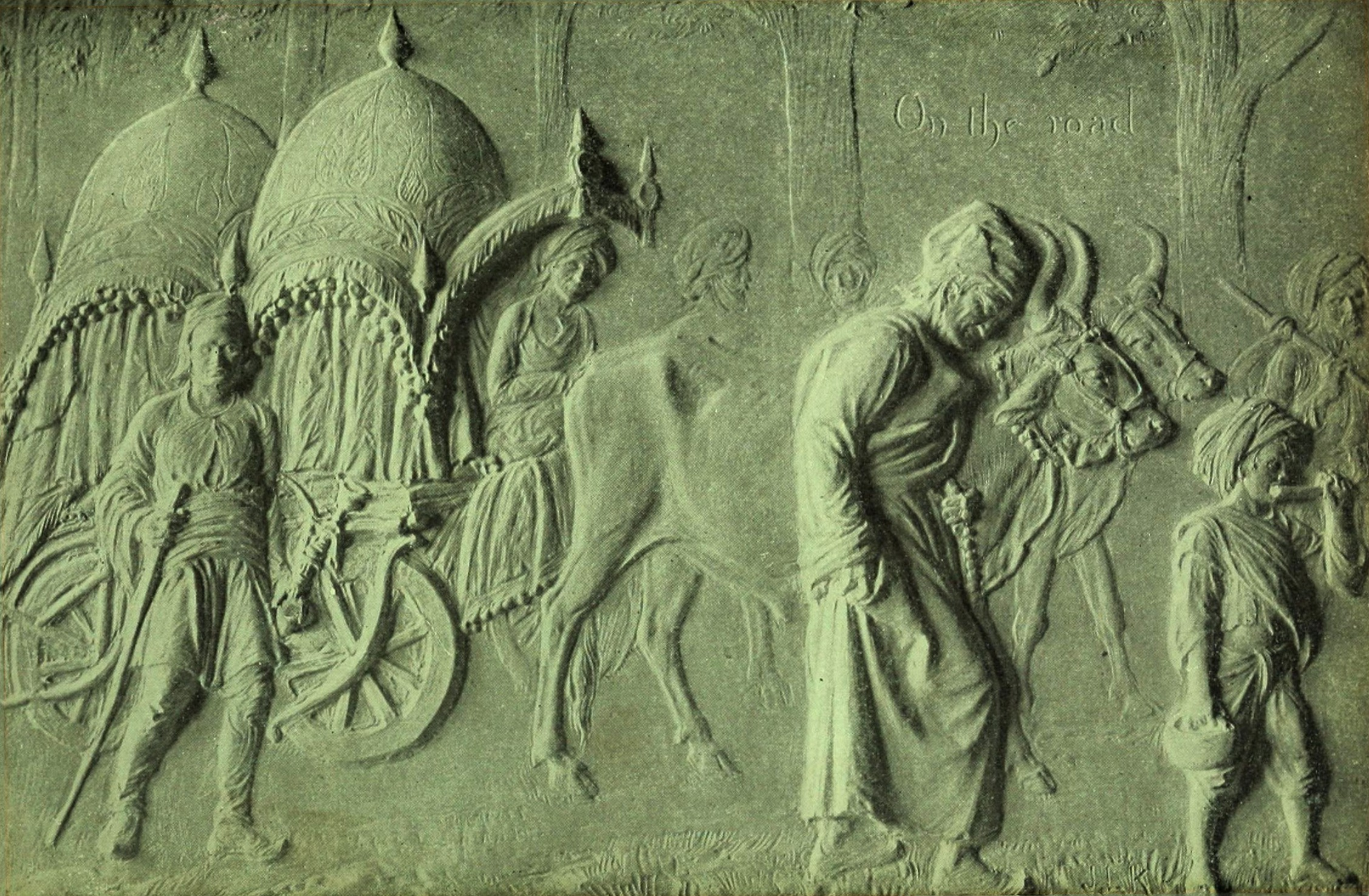 Illustration of a scene from Rudyard Kipling's "Kim" (1901) by his father John Lockwood Kipling. "The lama and Kim walked a little to one side; Kim chewing his stick of sugar-cane, and making way for no one under the status of a priest."